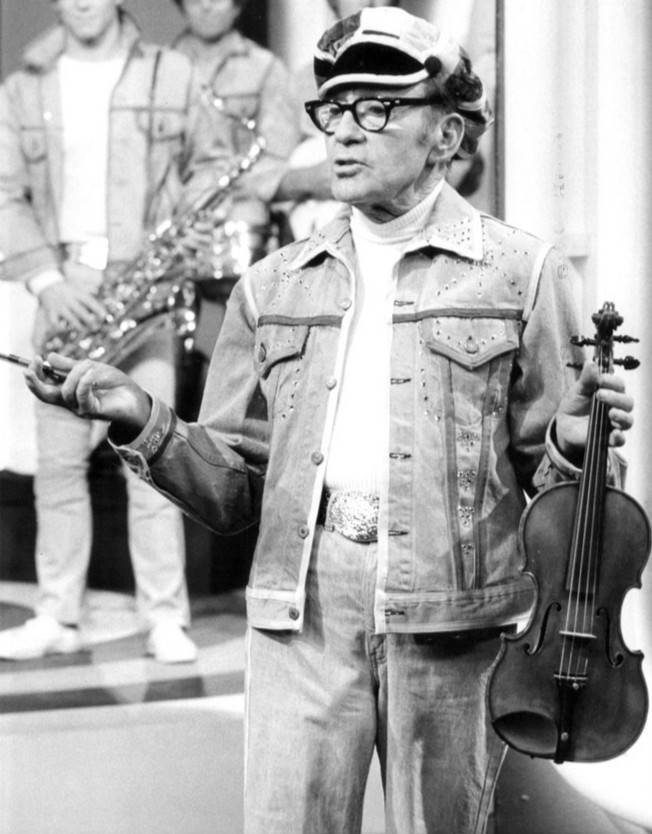 Publicity photo of Jack Benny from his January 1974 special.